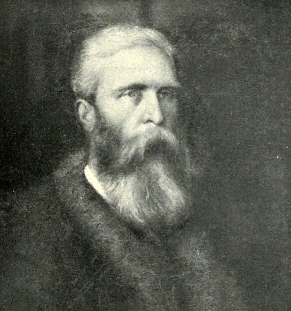 John Gurney builder of Sprowston Hall circa 1885